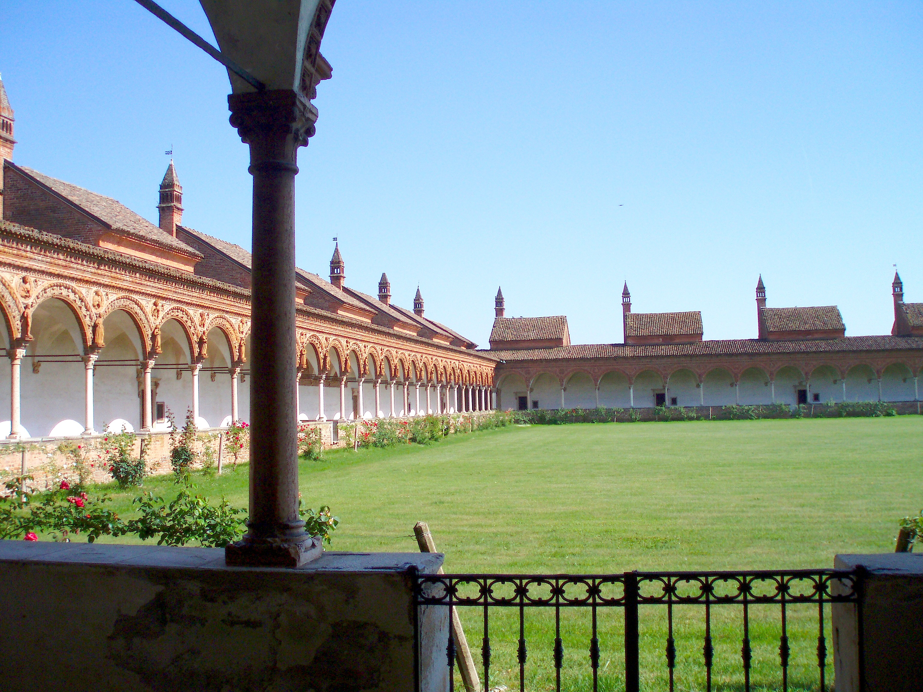 Certosa di Pavia, Grand Cloister, view from north side